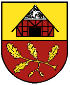 Coat of Arms of Hämelhausen